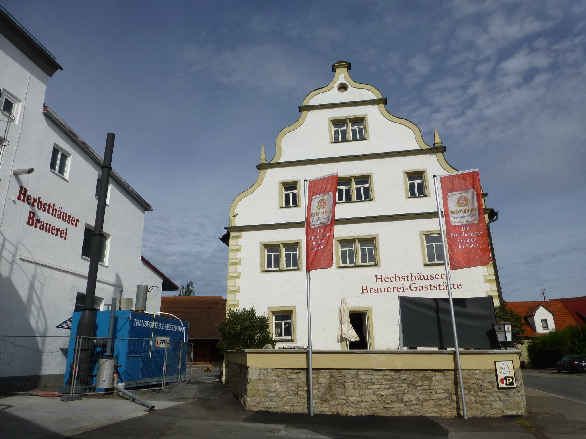 Herbsthäuser Brauerei Gasthof - Hotel. Note the mobile heating equipment.